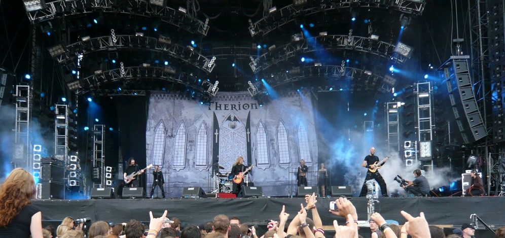 Therion at Wacken Open Air, 2007. Cropped of original photography.